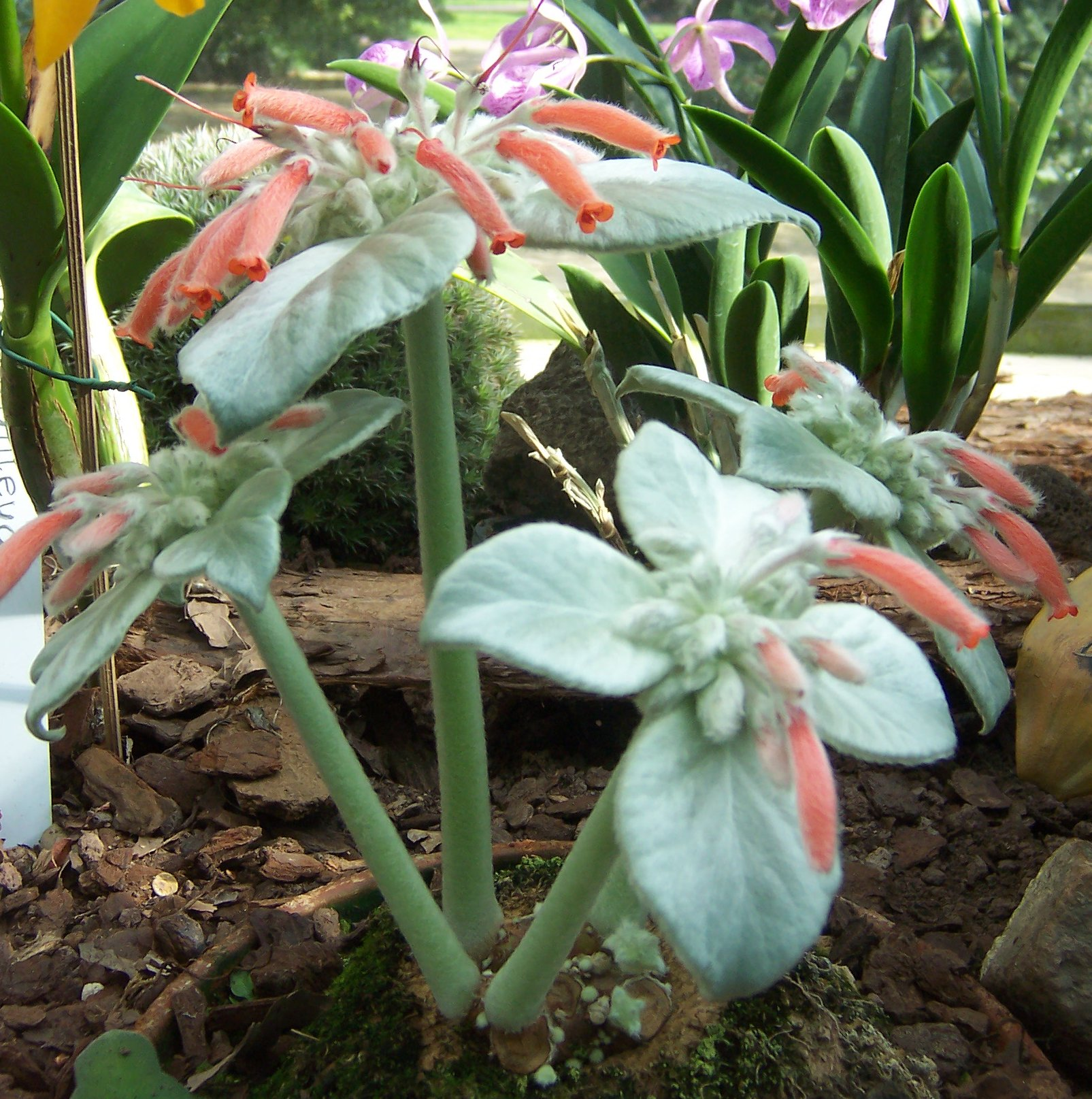 Sinningia leucotricha (misidentified as Sinningia canescens), habitus of flowering plant